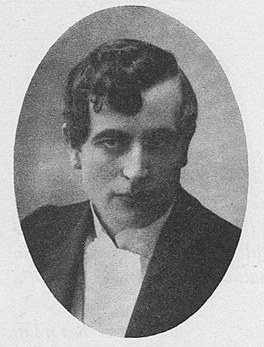 Finnish theatre personality, early 1930s.